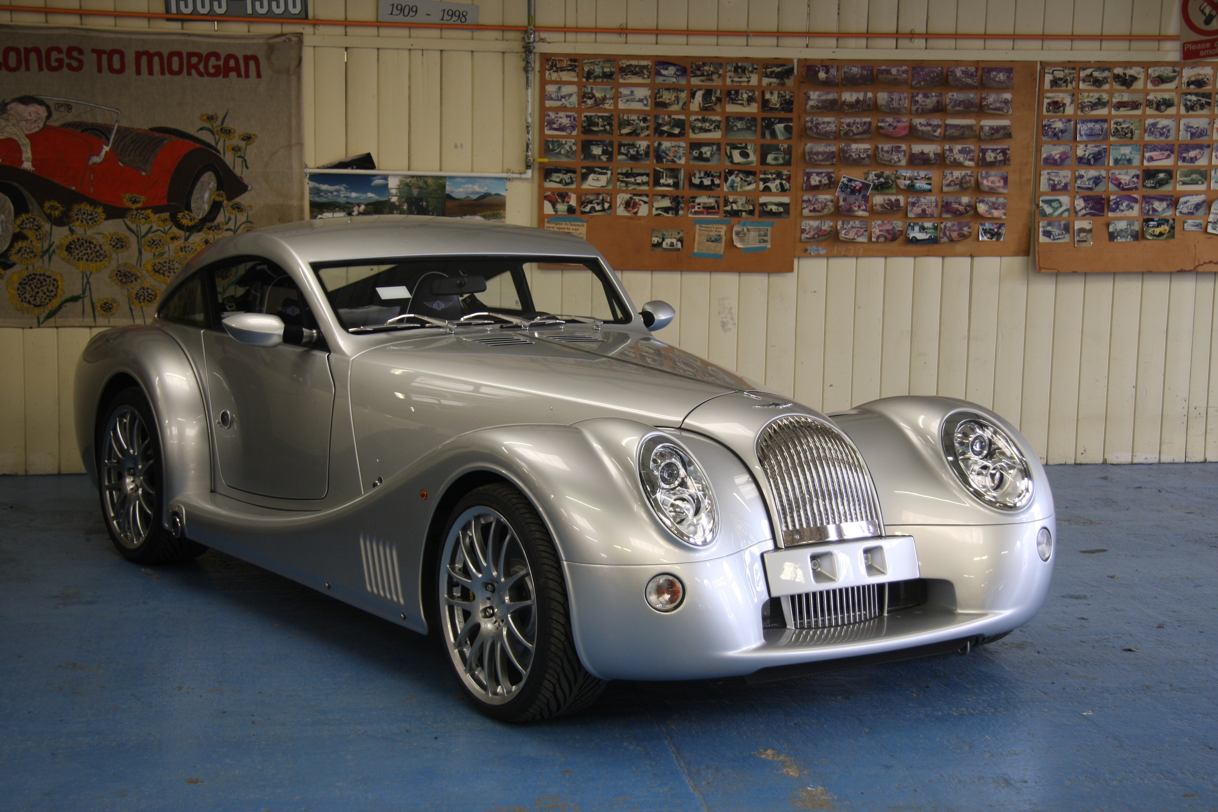 Customer cars awaiting depatch